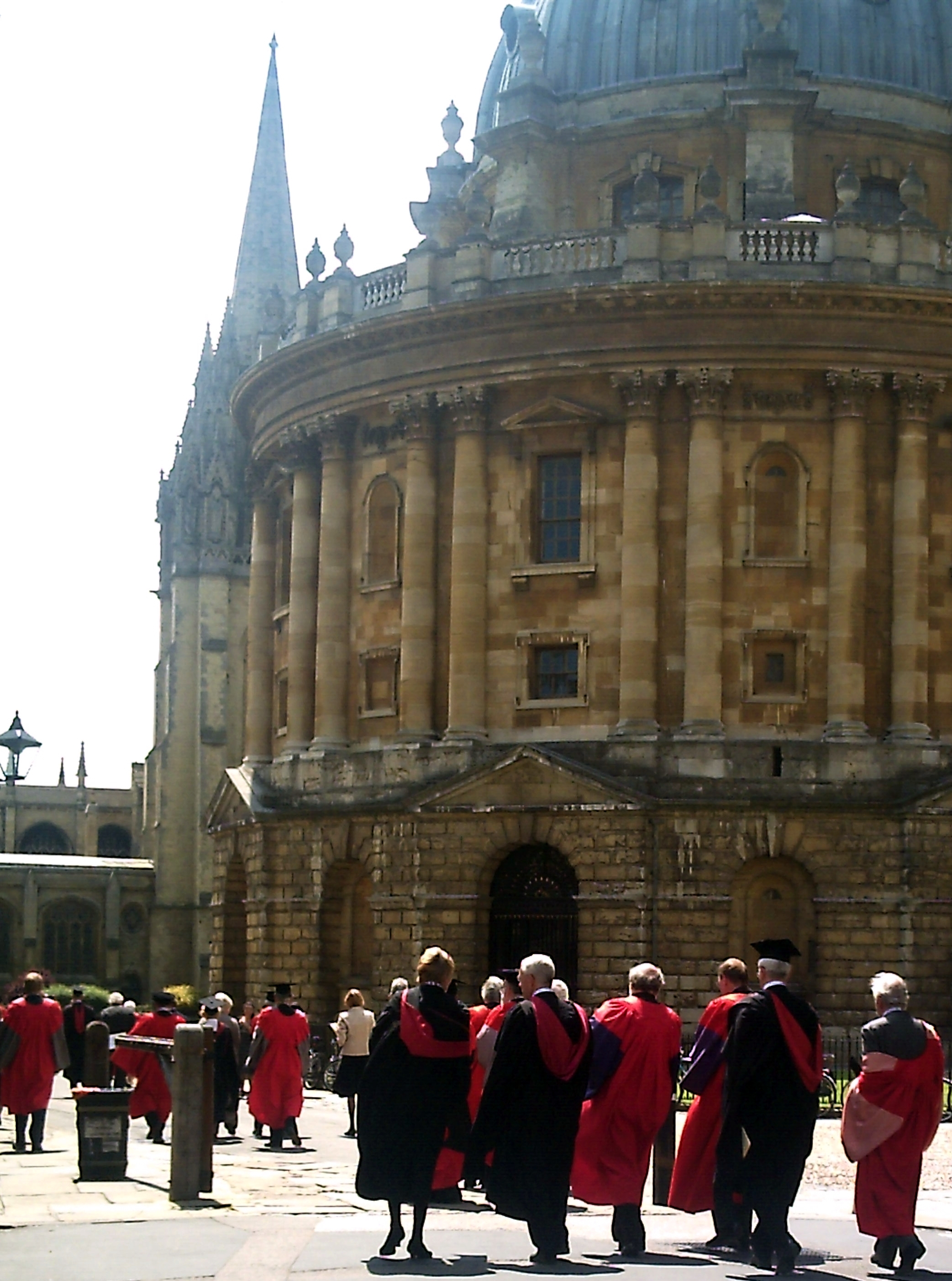 Members of Congregation of the University of Oxford pass through Radcliffe square after Encaenia 2009.